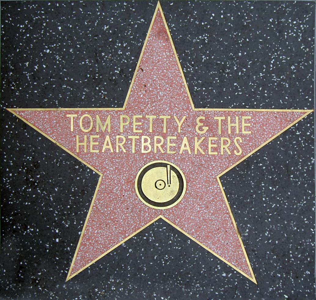 Tom Petty & The Heartbreakers star on Hollywood Walk of Fame, in Los Angeles, California.